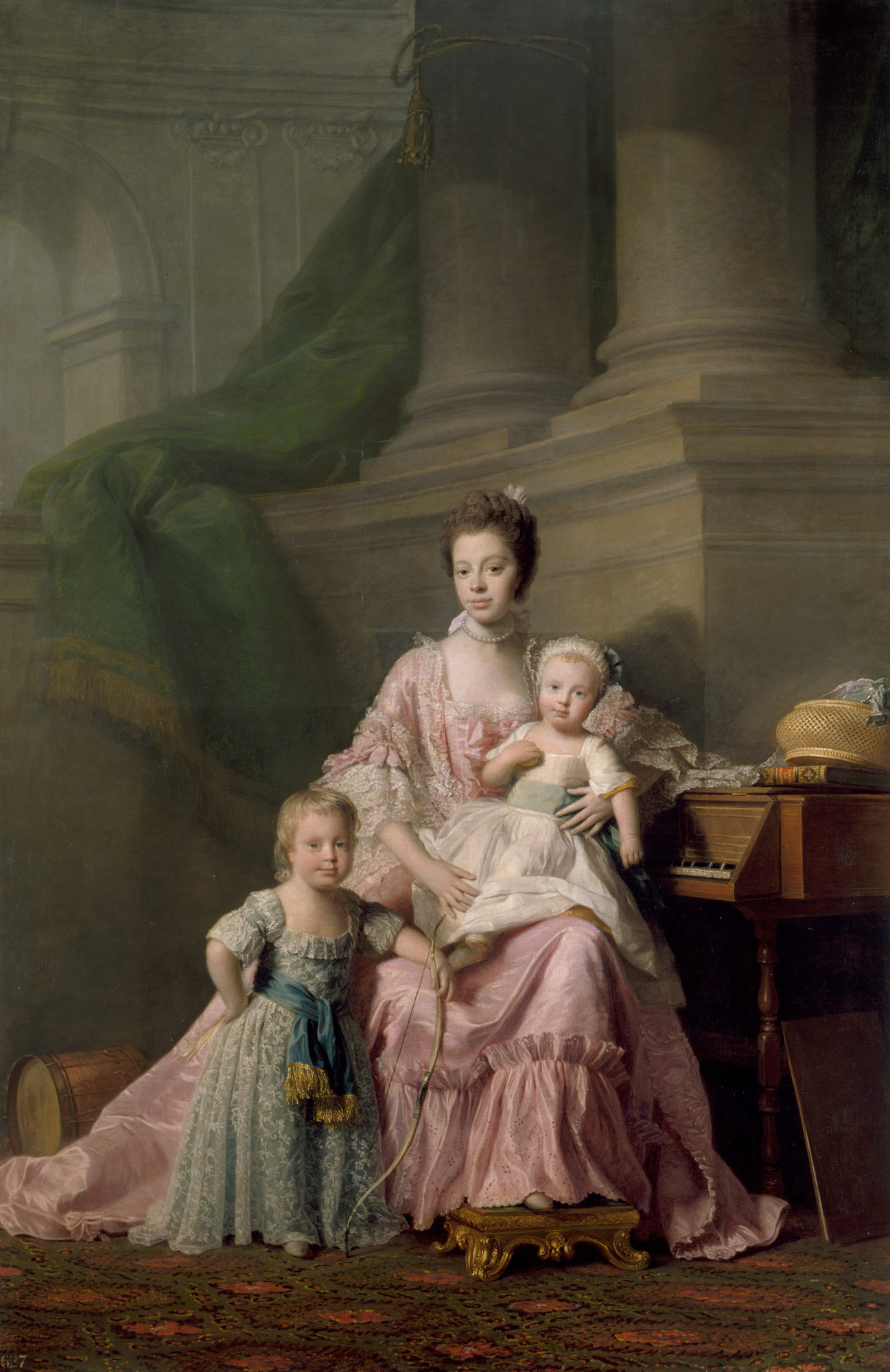 Queen Charlotte with her two eldest sons